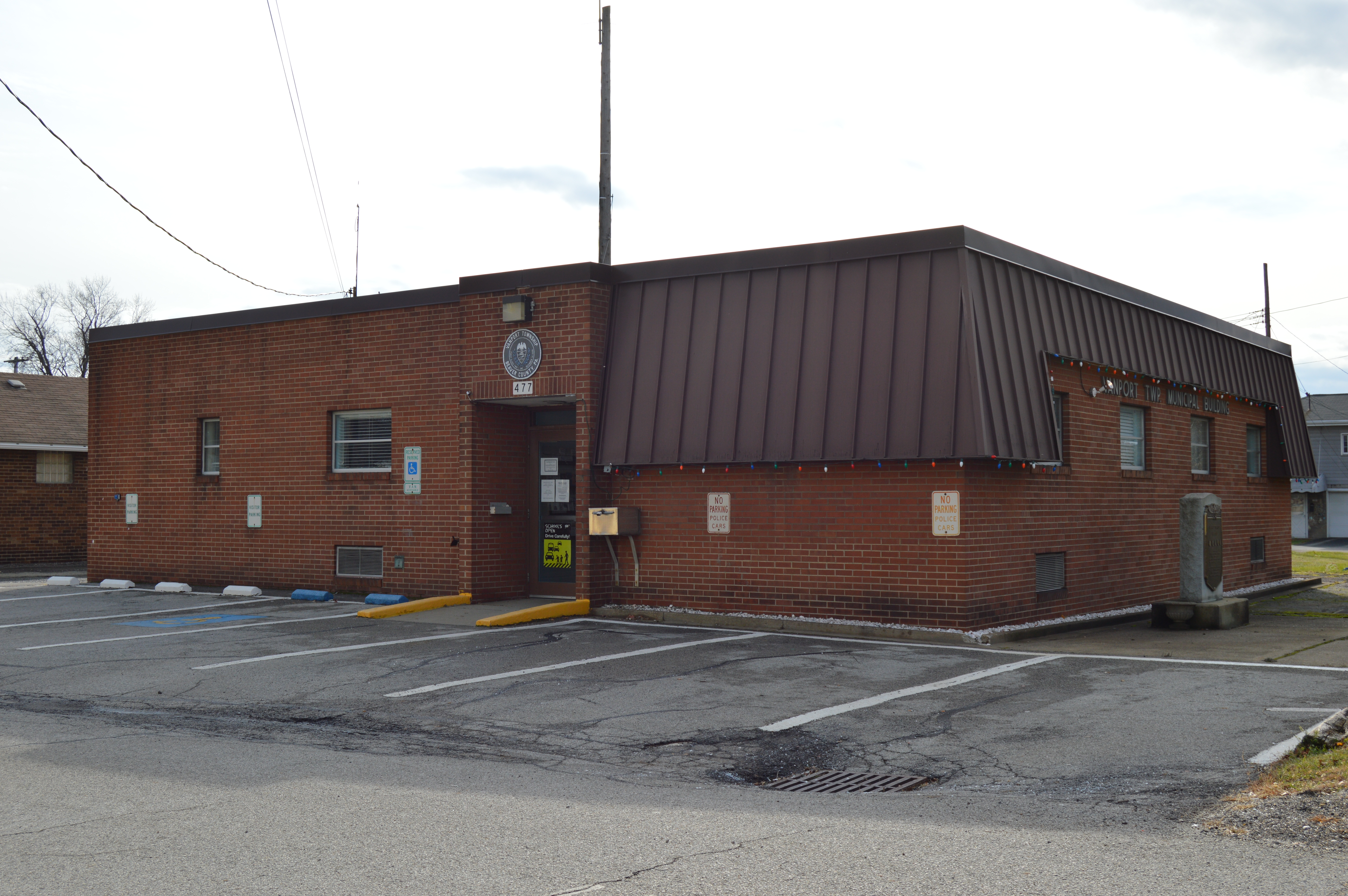 Front and eastern of the municipal building in Vanport Township, Beaver County, Pennsylvania, United States, located on the southwestern corner of the junction of State Avenue (Pennsylvania Route 68) and Chestnut Street.